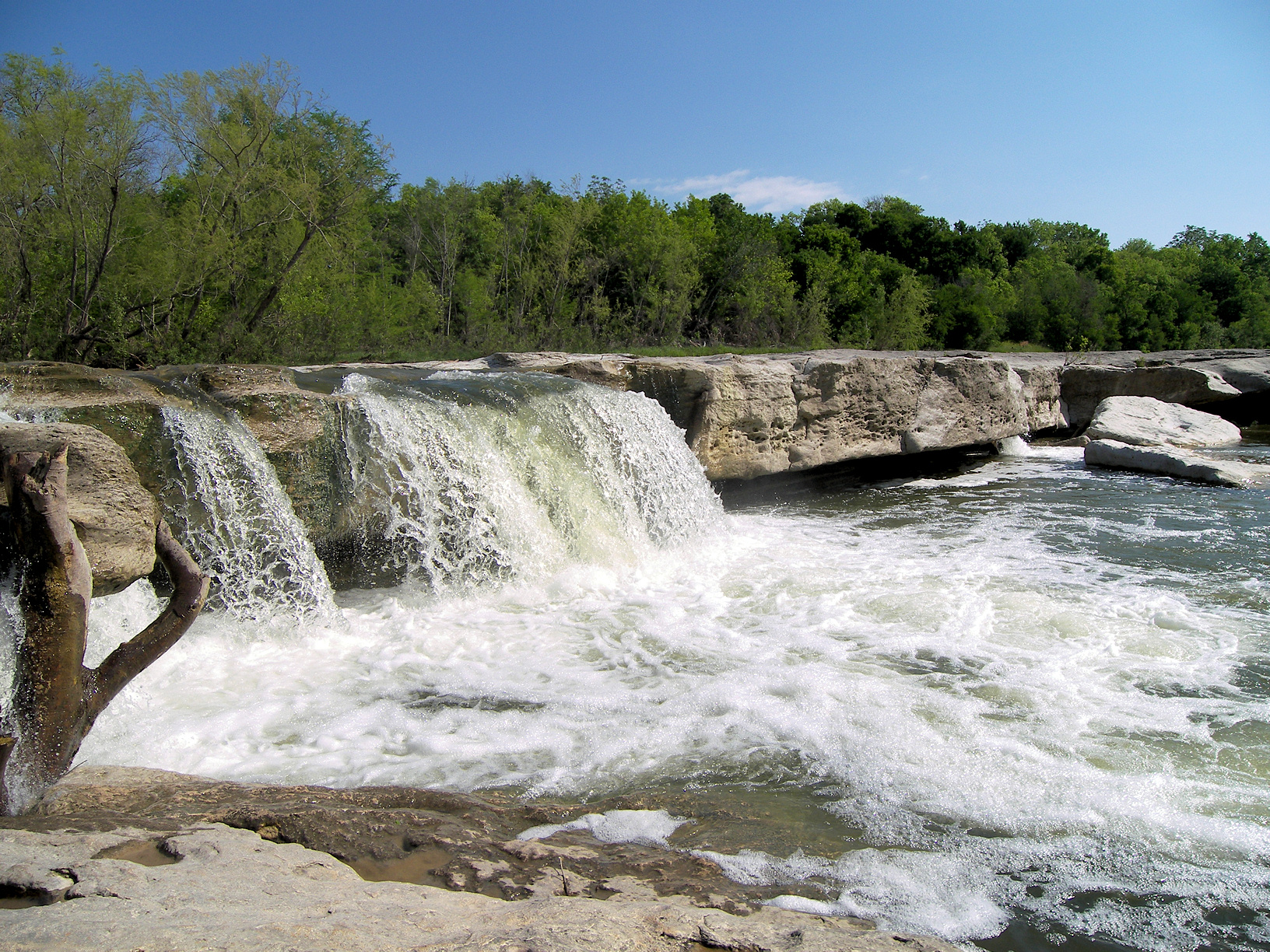 The water of Onion Creek, a tributary of the Colorado River, goes over the lower falls at McKinney Falls State Park. The limestone above the falls is documented as being a crossing point for Onion Creek on the El Camino Real de los Tejas.